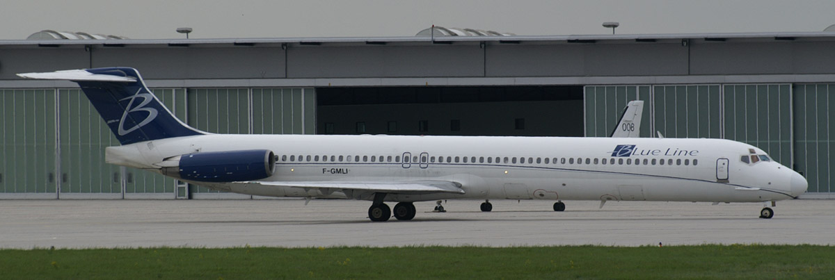 Blue Line McDonnell Douglas MD-83 (F-GMLI) at Stuttgart Airport